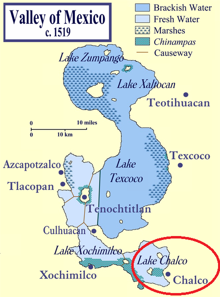 Lake of texcoco, chalco is highlighted